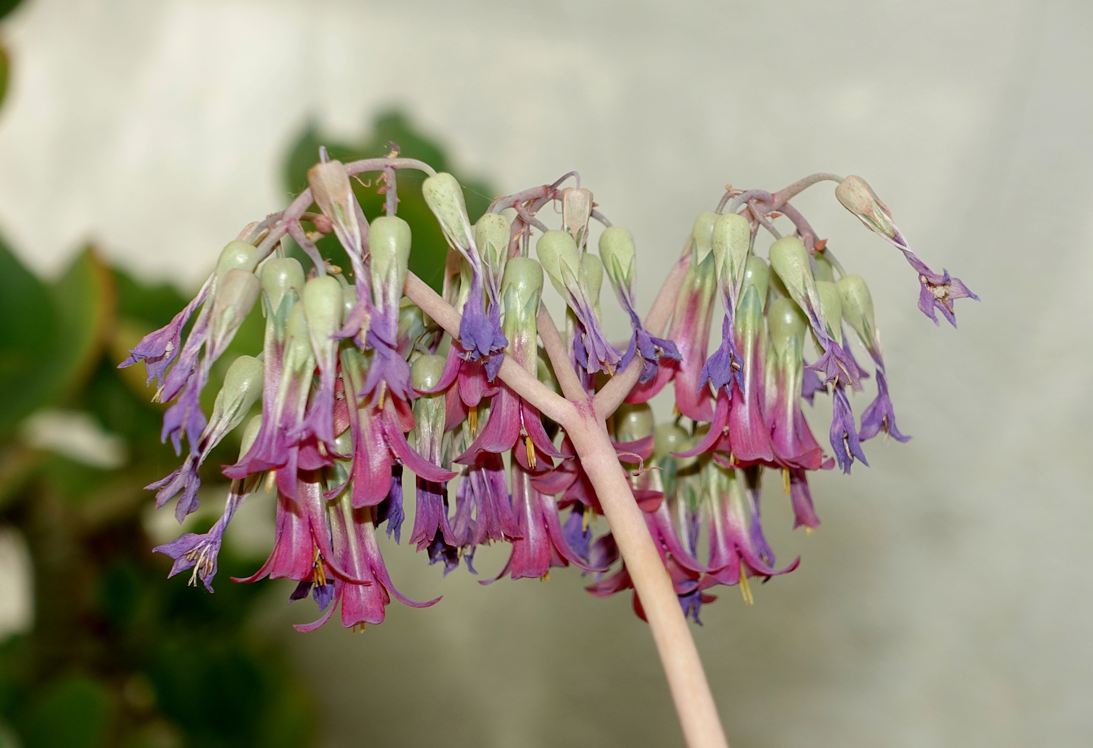 Botanical specimen in the Orto botanico - Rome, Italy.